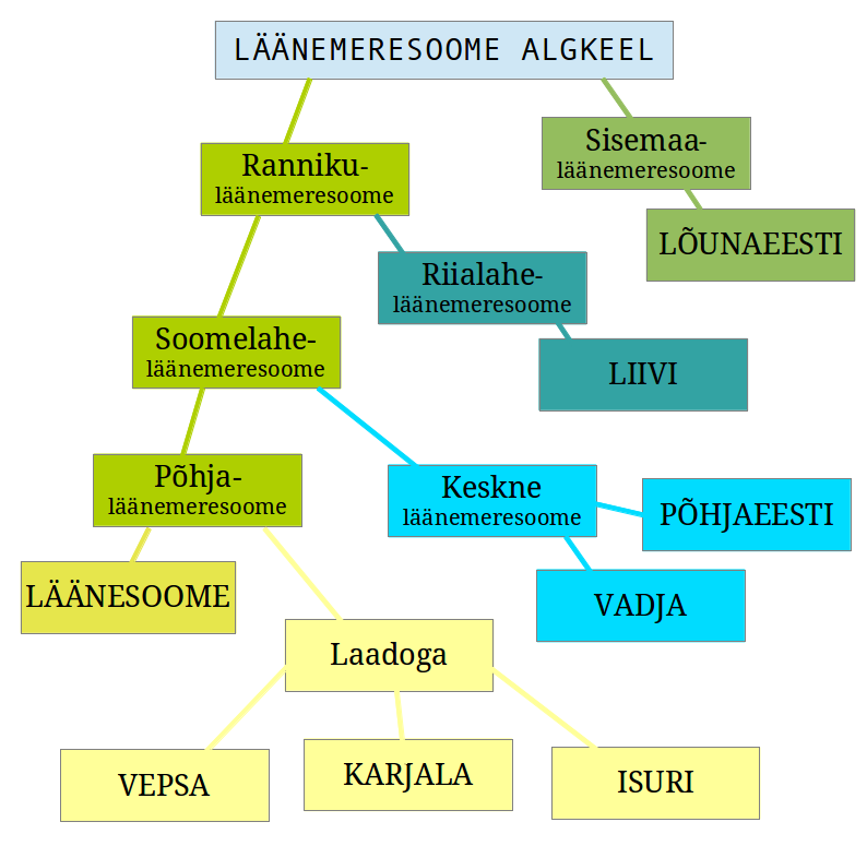 Finnic languages